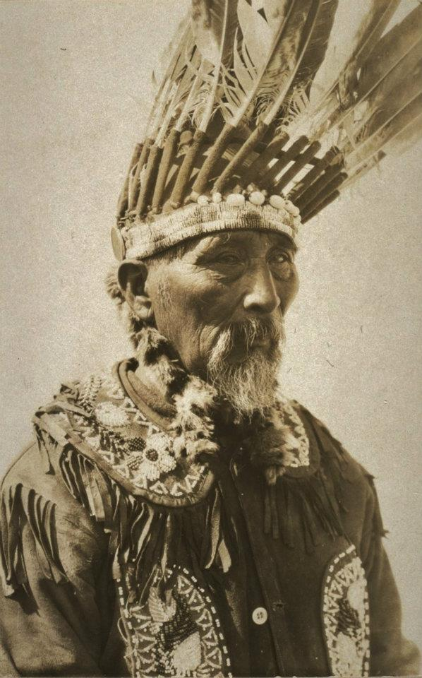 Madhesi Istet Woiche (aka William Hulsey) 1923